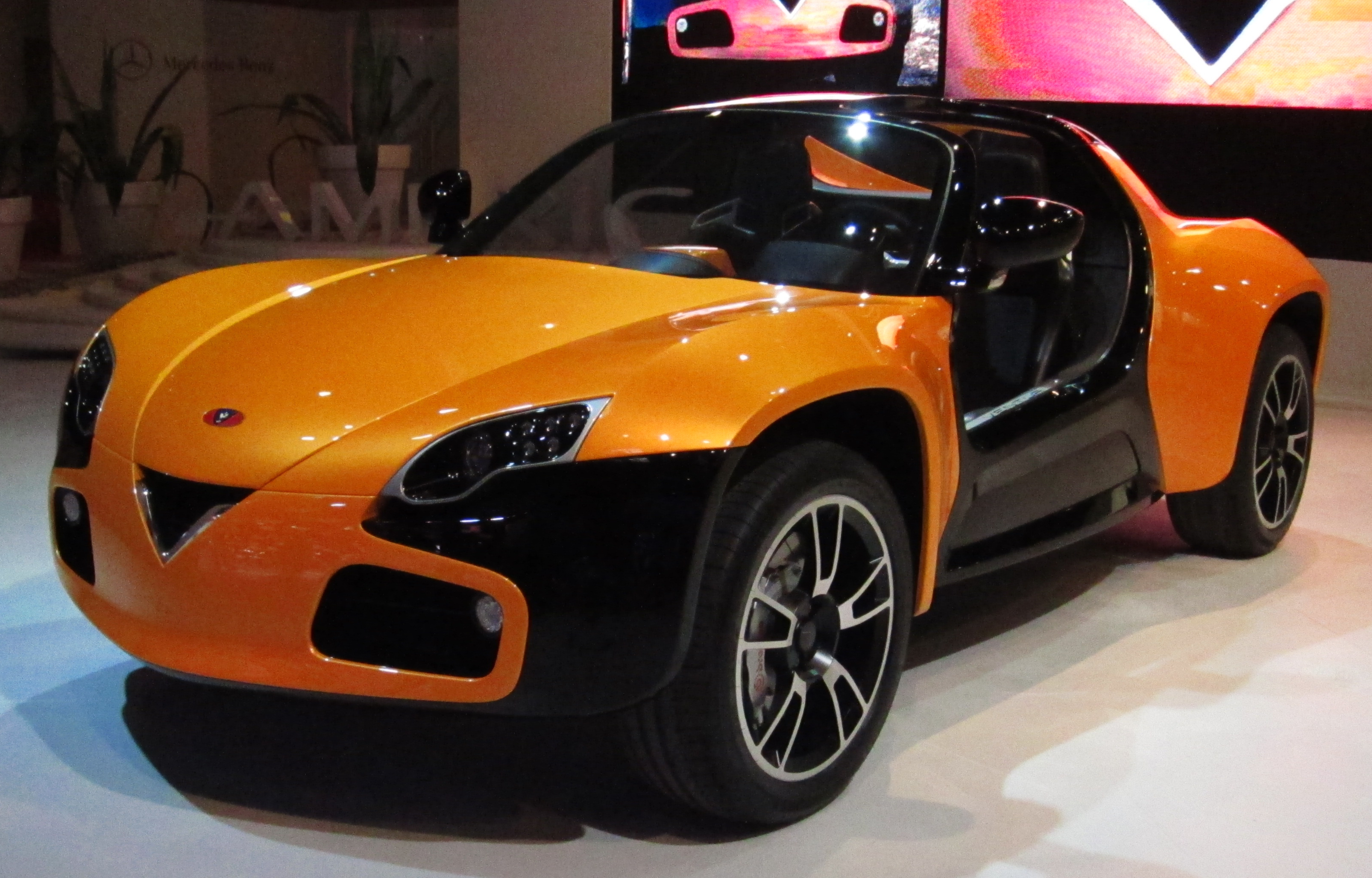 Venturi America at Mondial de l'Automobile Paris 2012